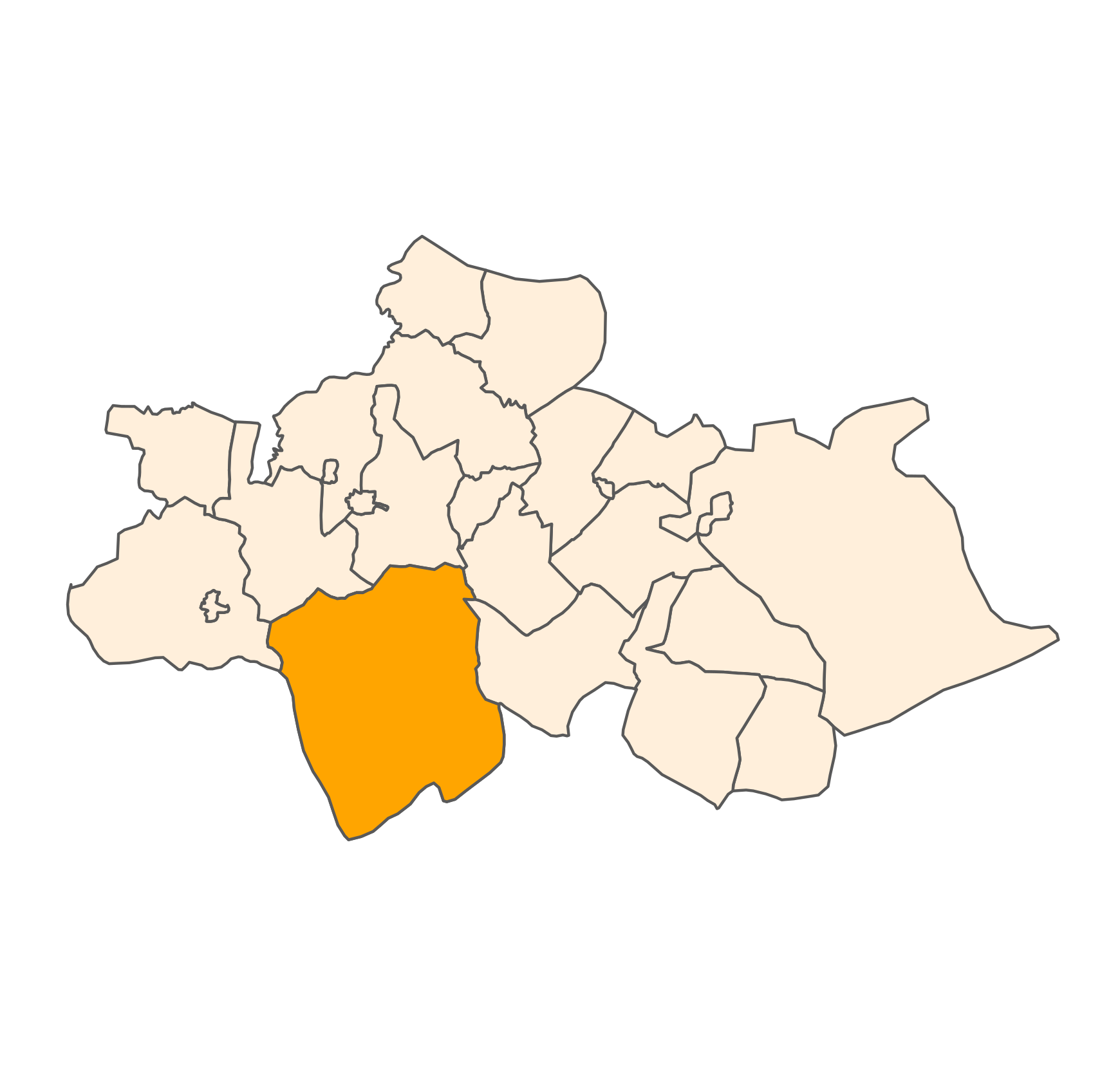 Commune (Orange), Sefrou Province (Antique White)